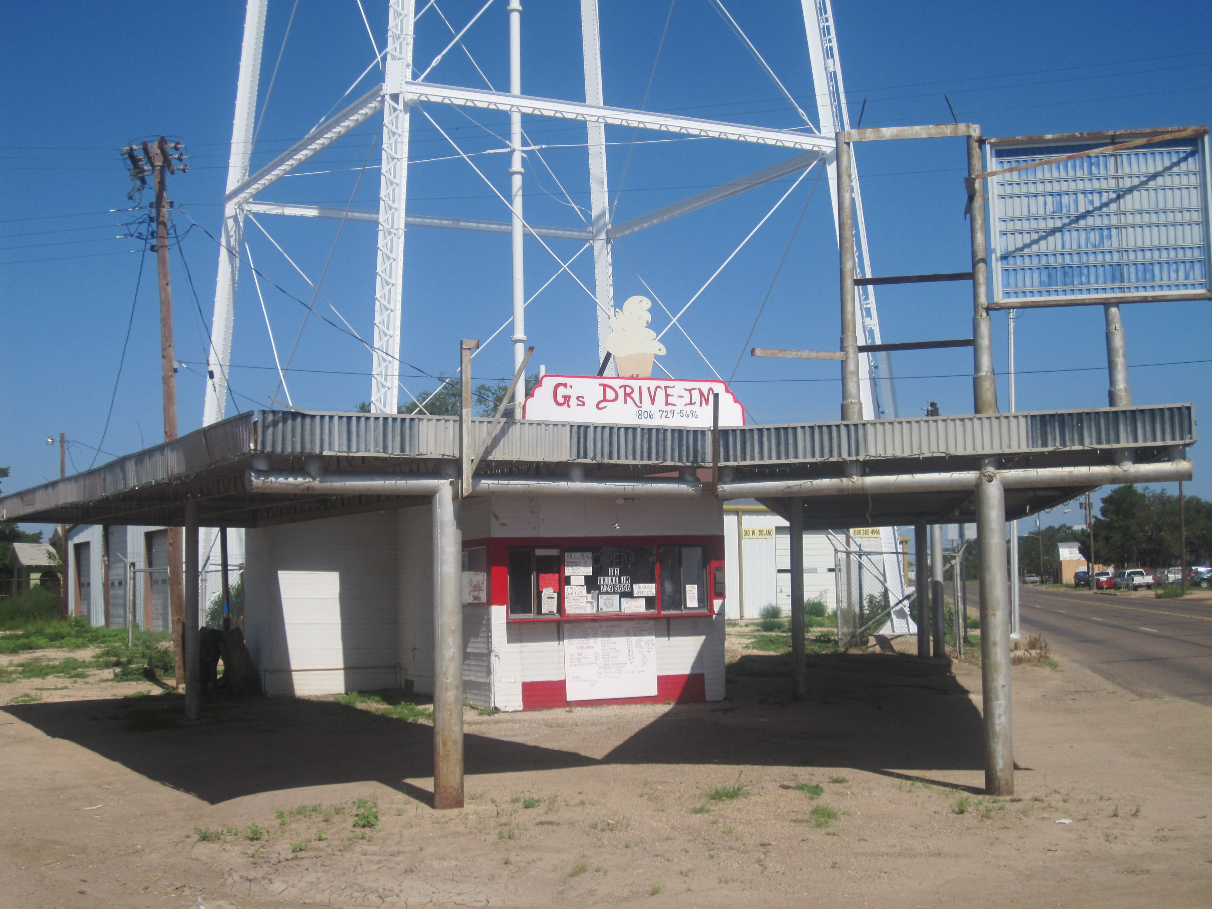 I took photo with Canon camera in Littlefield, TX.